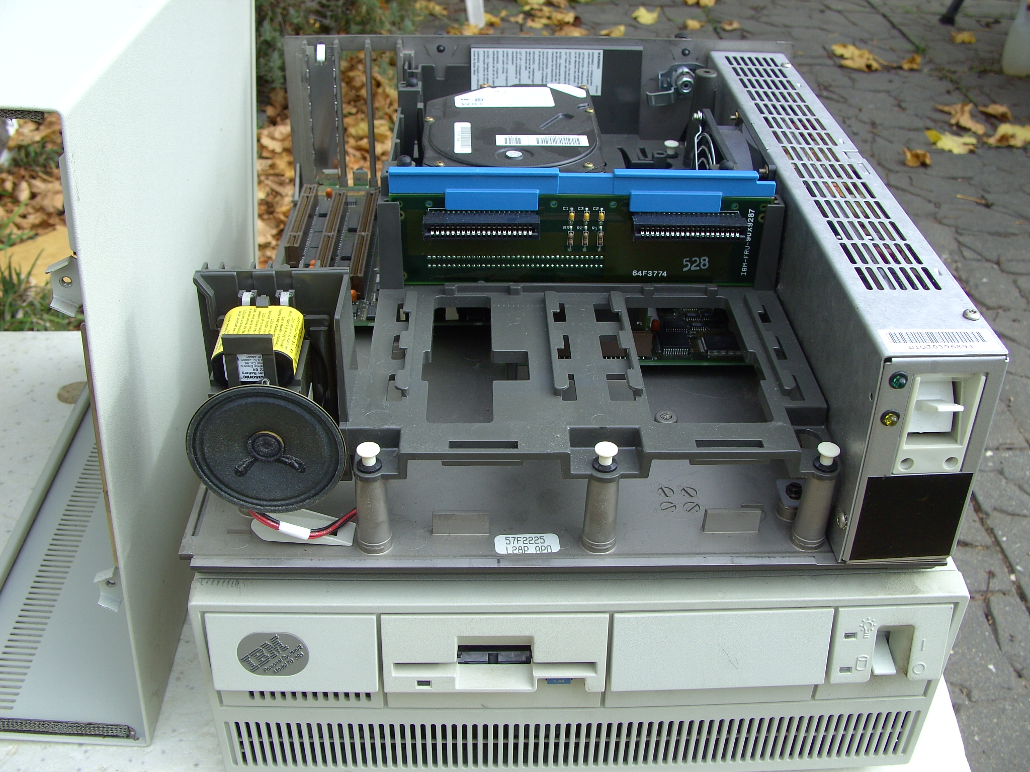 IMB Personal System/2 Model 70 (open and closed cases)